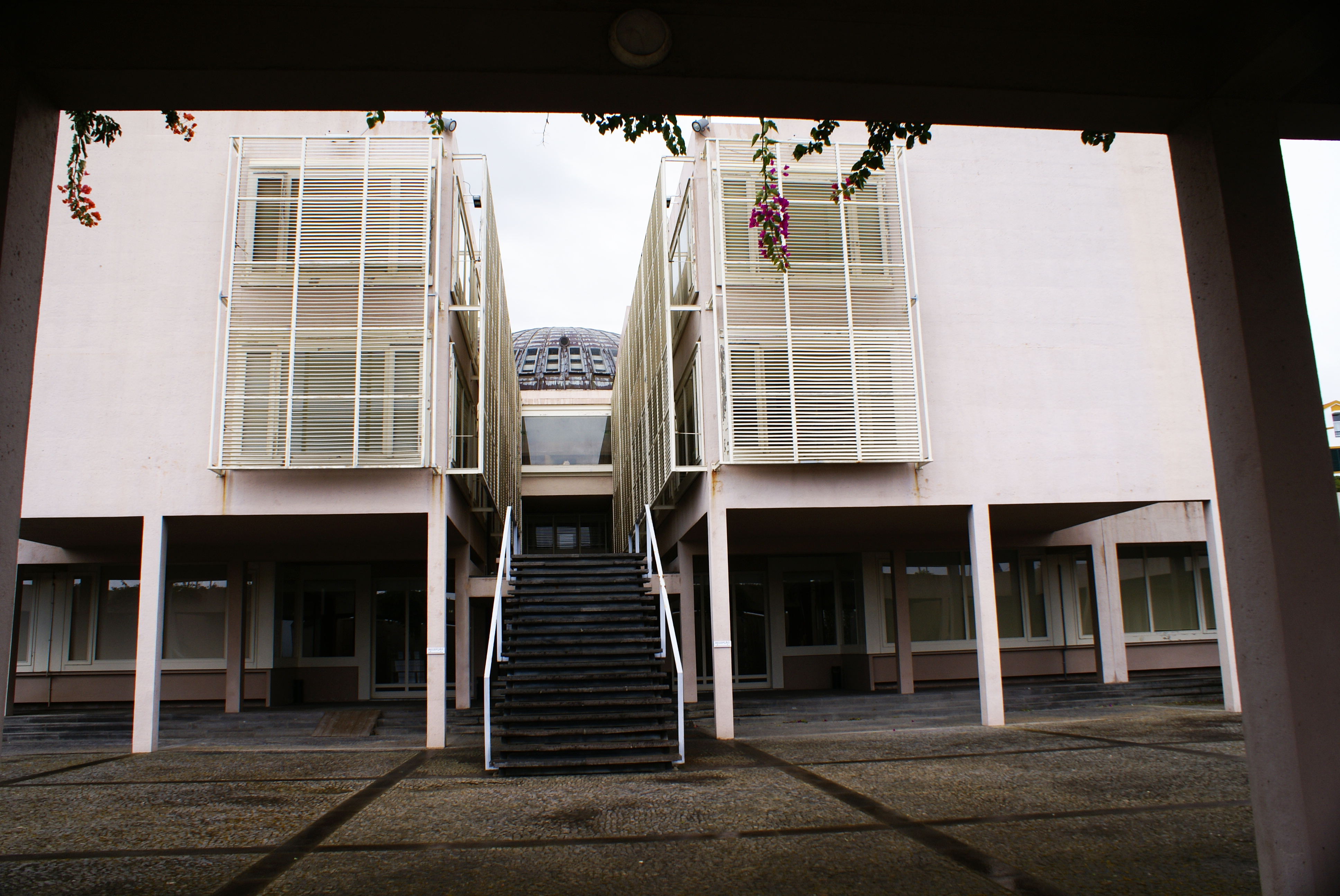 Entrance corridor to the Legislative Assembly of the Autonomous Region of the Azores, Horta, Faial (Azores), Portugal